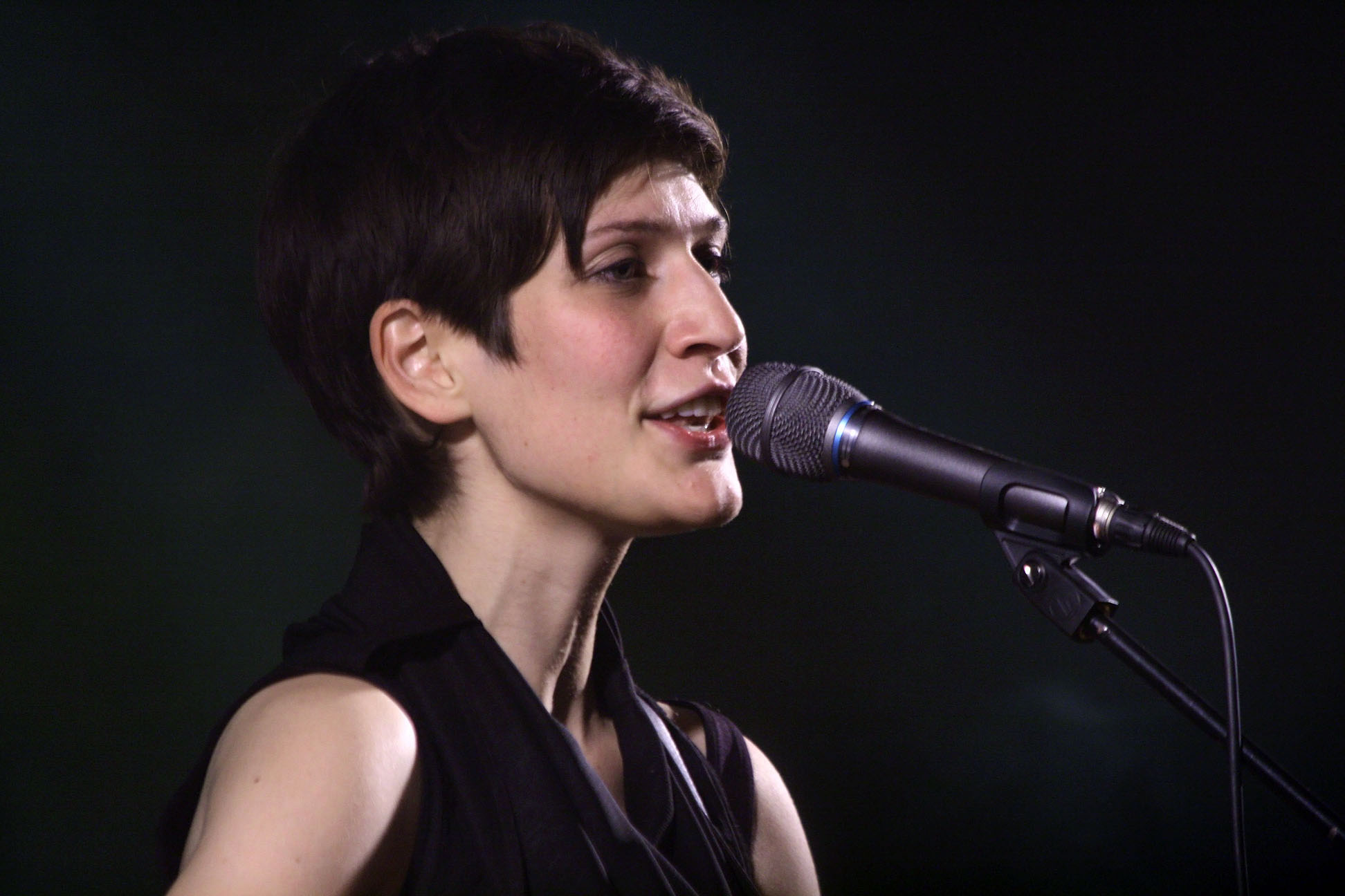 The Alin Coen Band - concert at the cultural center WUK in Vienna.